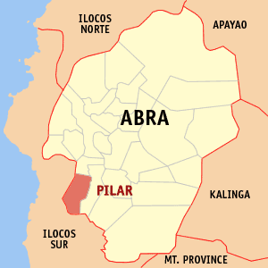 Map of Abra showing the location of Pilar